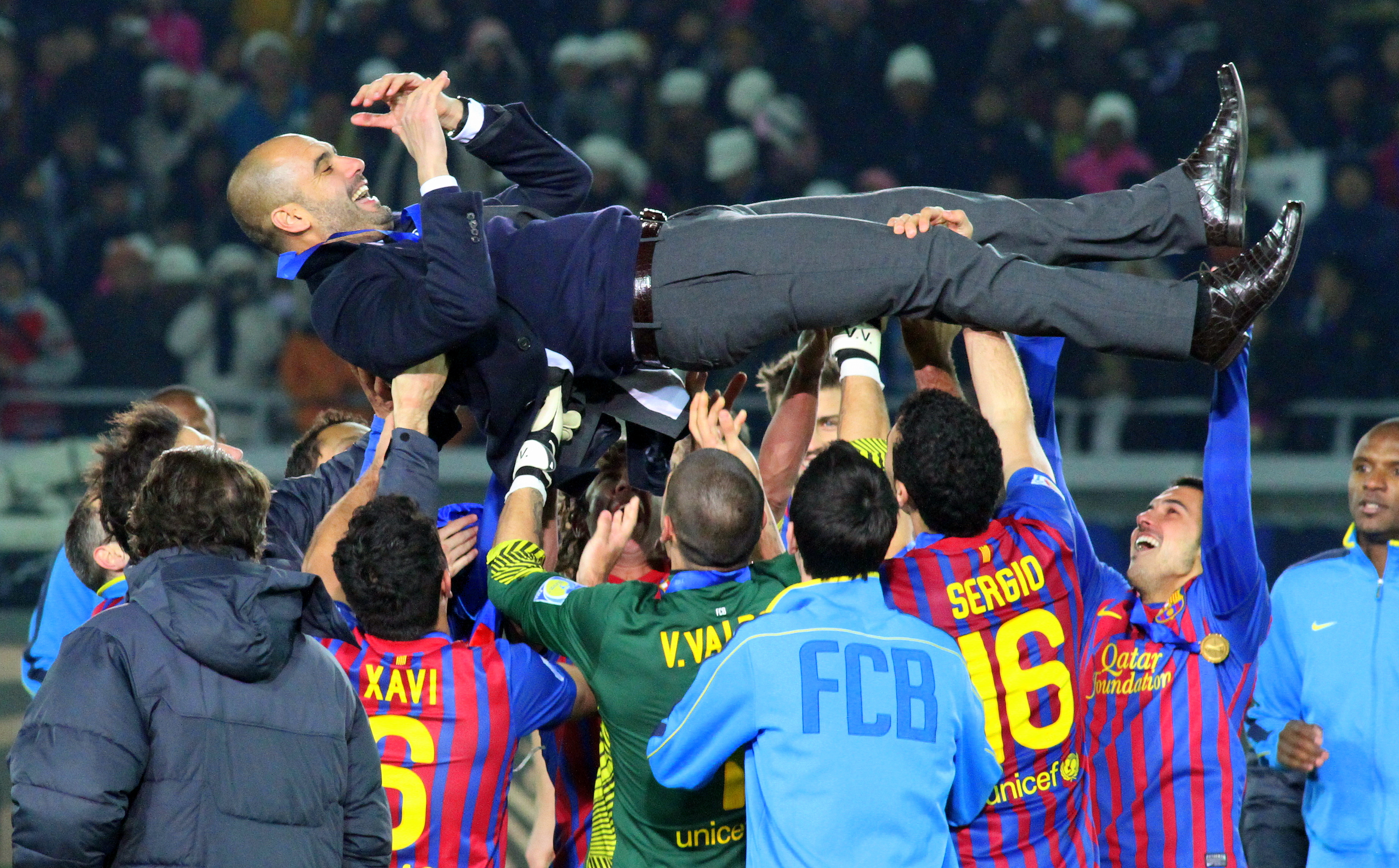 FC Barcelona, Santos best 2011.